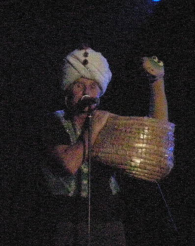 Erste Allgemeine Verunsicherung in Vienna, Austria, Donauinselfest 2008.